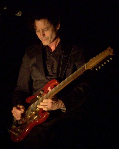 Crowded House performing in Boston - August 5, 2007. Mark Hart, is the multi-instrumentalist current bassist for the band Crowded House. The photo is part of the en.wikipedia Crowded House workgroup.